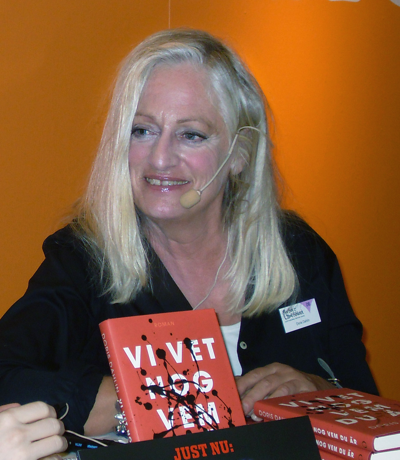 Swedish author Doris Dahlin at gothenburg book fair 2008